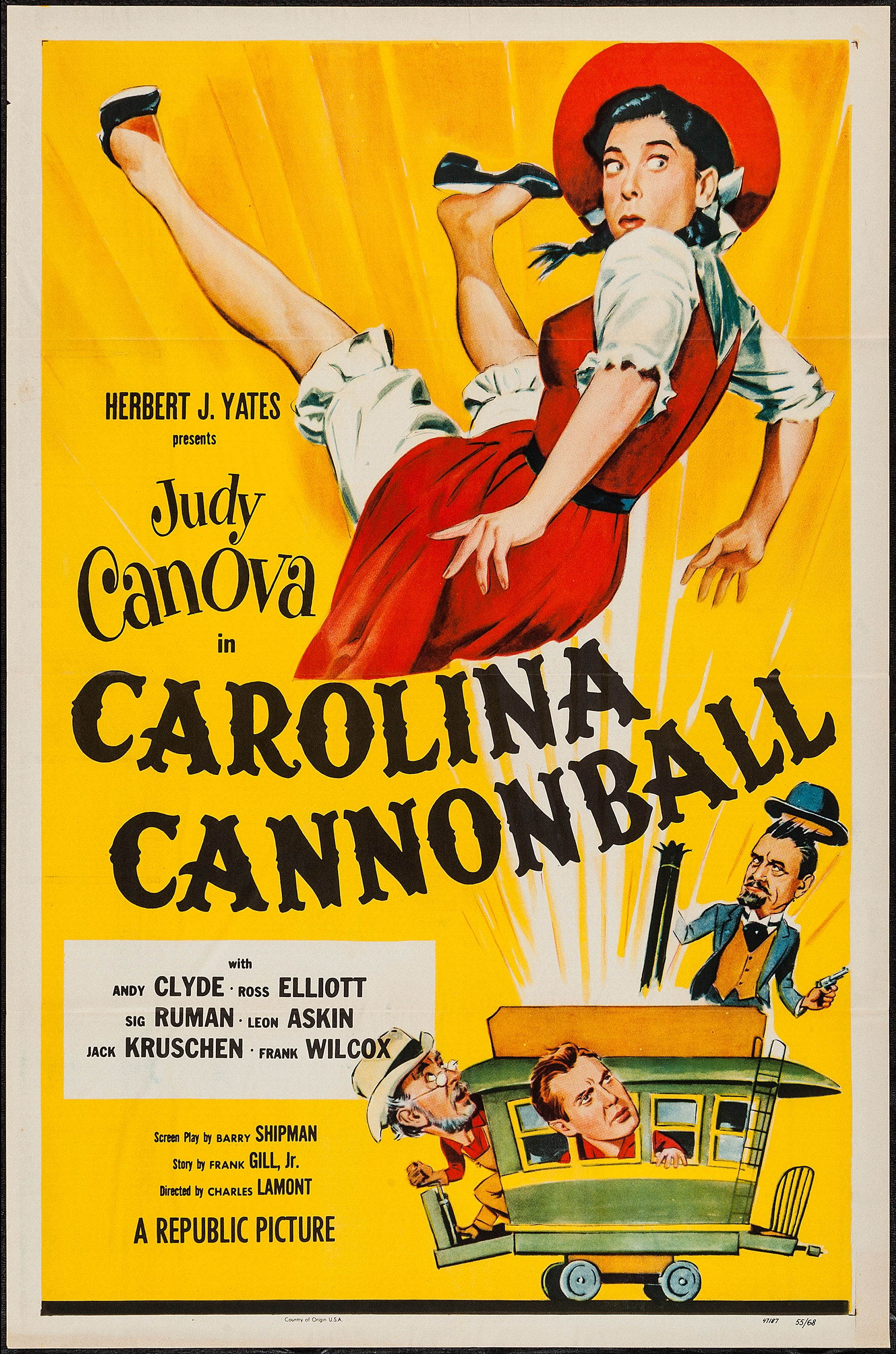 Poster for the 1955 film Carolina Cannonball. The item has no copyright markings on it as can be seen in the links above. At bottom left is Country of origin USA. At bottom right is 47187 and 55/68.